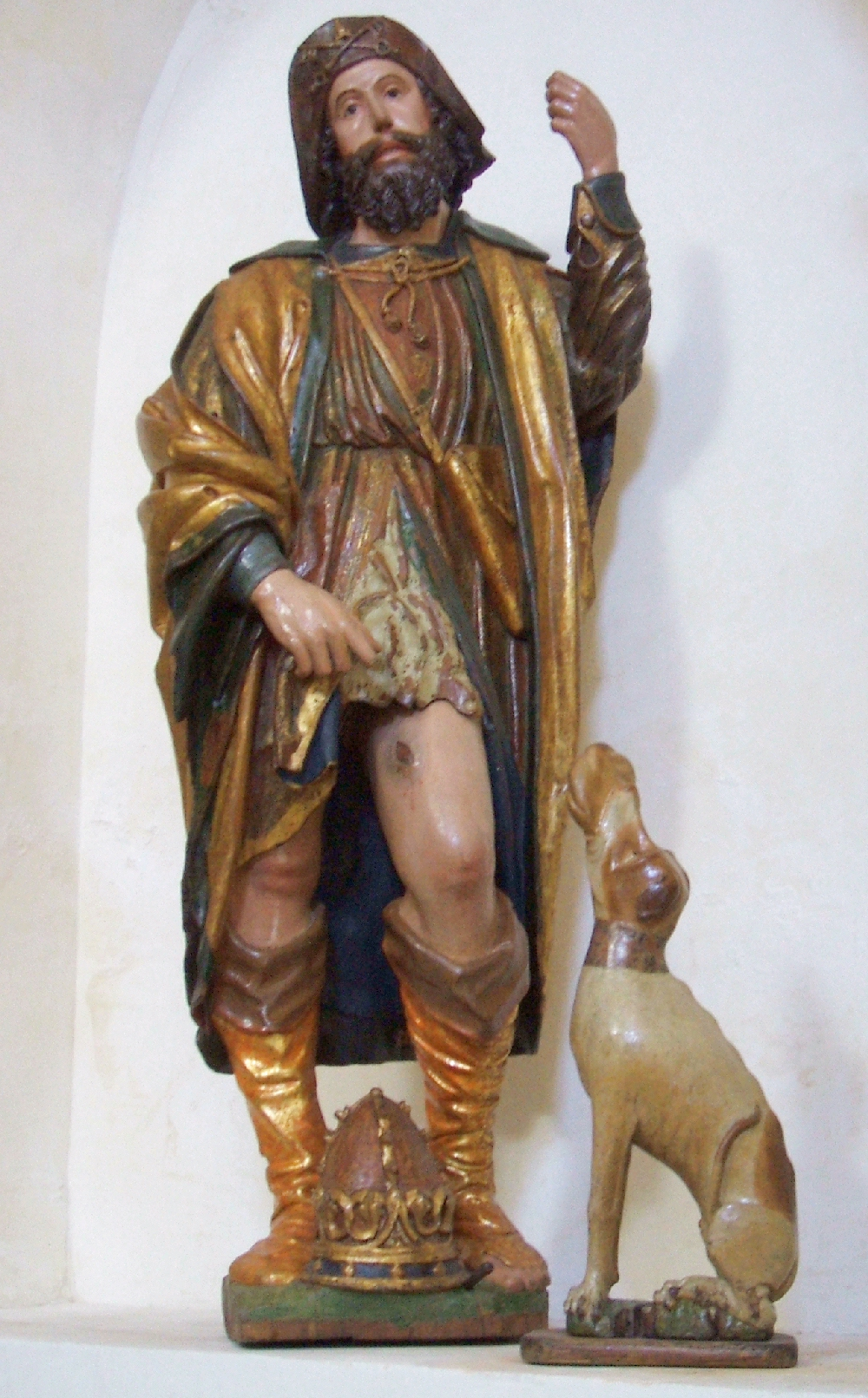 Talla de San Roque en la Capilla del Santo Cristo de la Colegiata de San Antolín, Medina del Campo (Valladolid, Castilla y León, España)